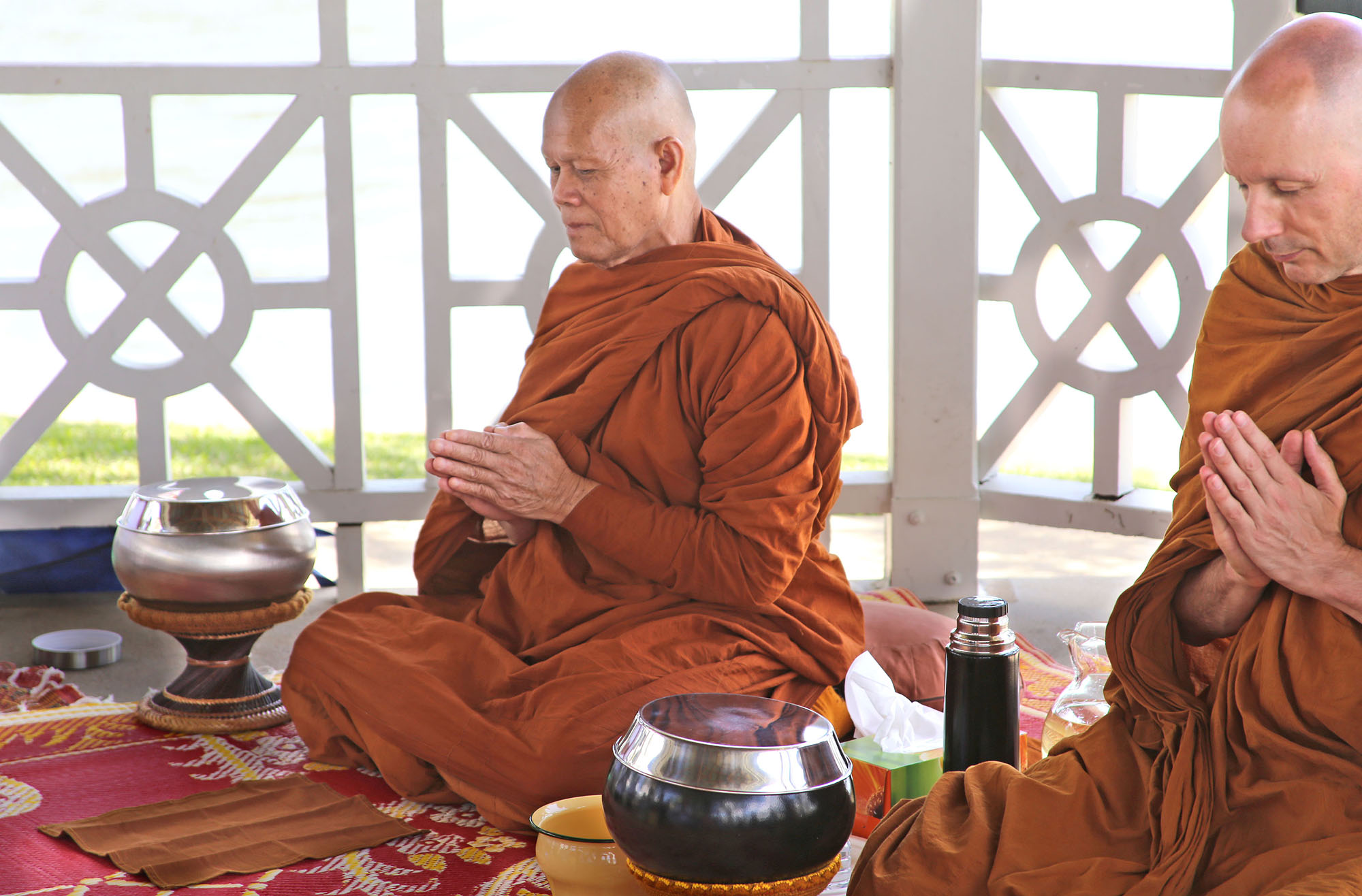 Dhammagiri Forest Hermitage, Buddhist Monastery, Brisbane, Australia